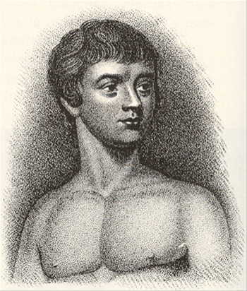 Victor of Aveyron, the feral child. Lithograph, c. 1800.